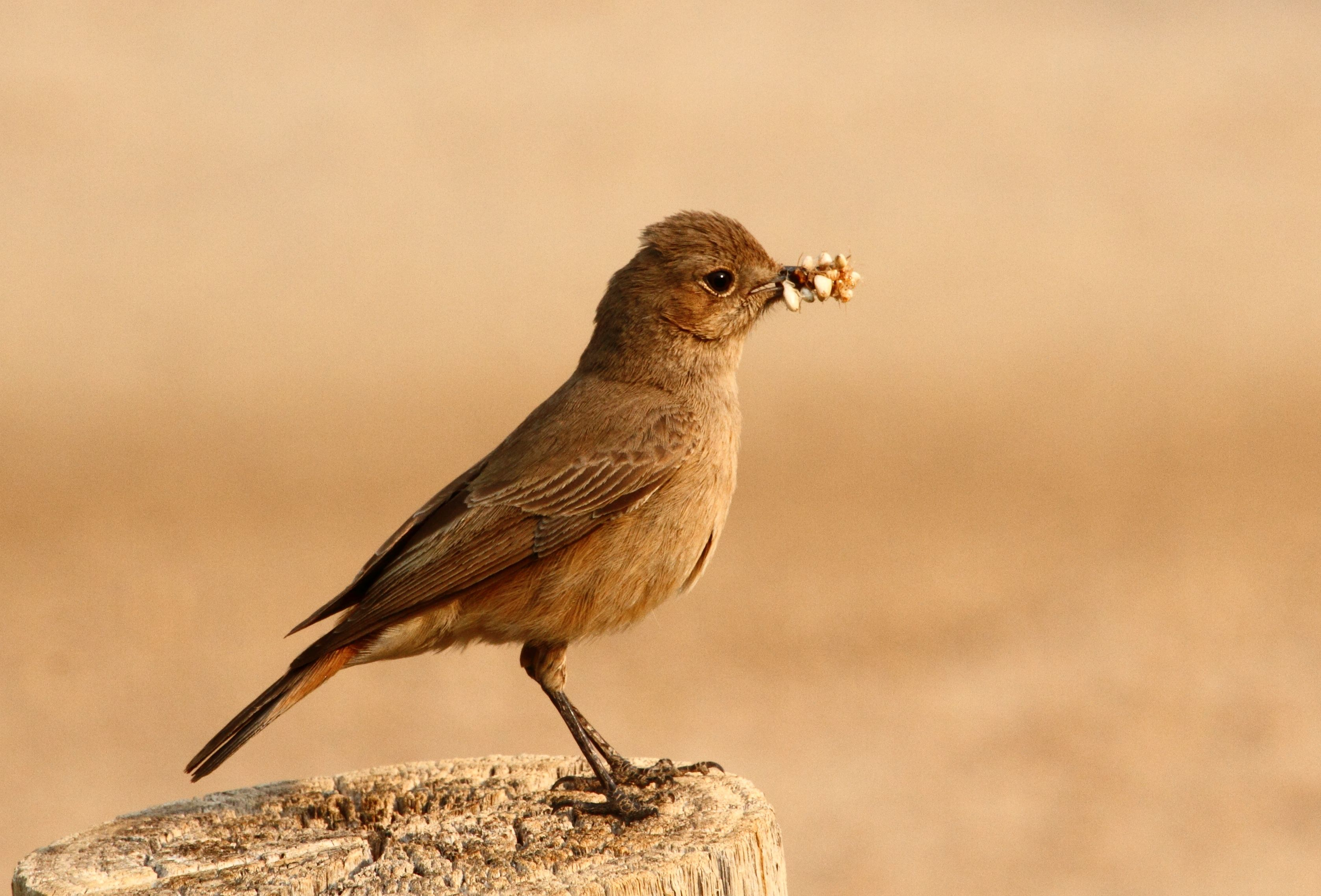 Familiar Chat Oenanthe familiaris with termite prey. Augrabies Falls National Park, Northern Cape, South Africa.